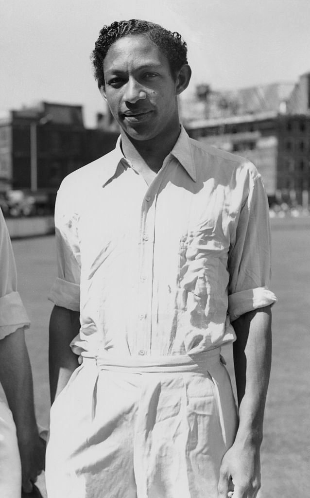 Dr. Carlos Bertram Clarke (1918 - 1993) of Northamptonshire County Cricket Club, May 1947.